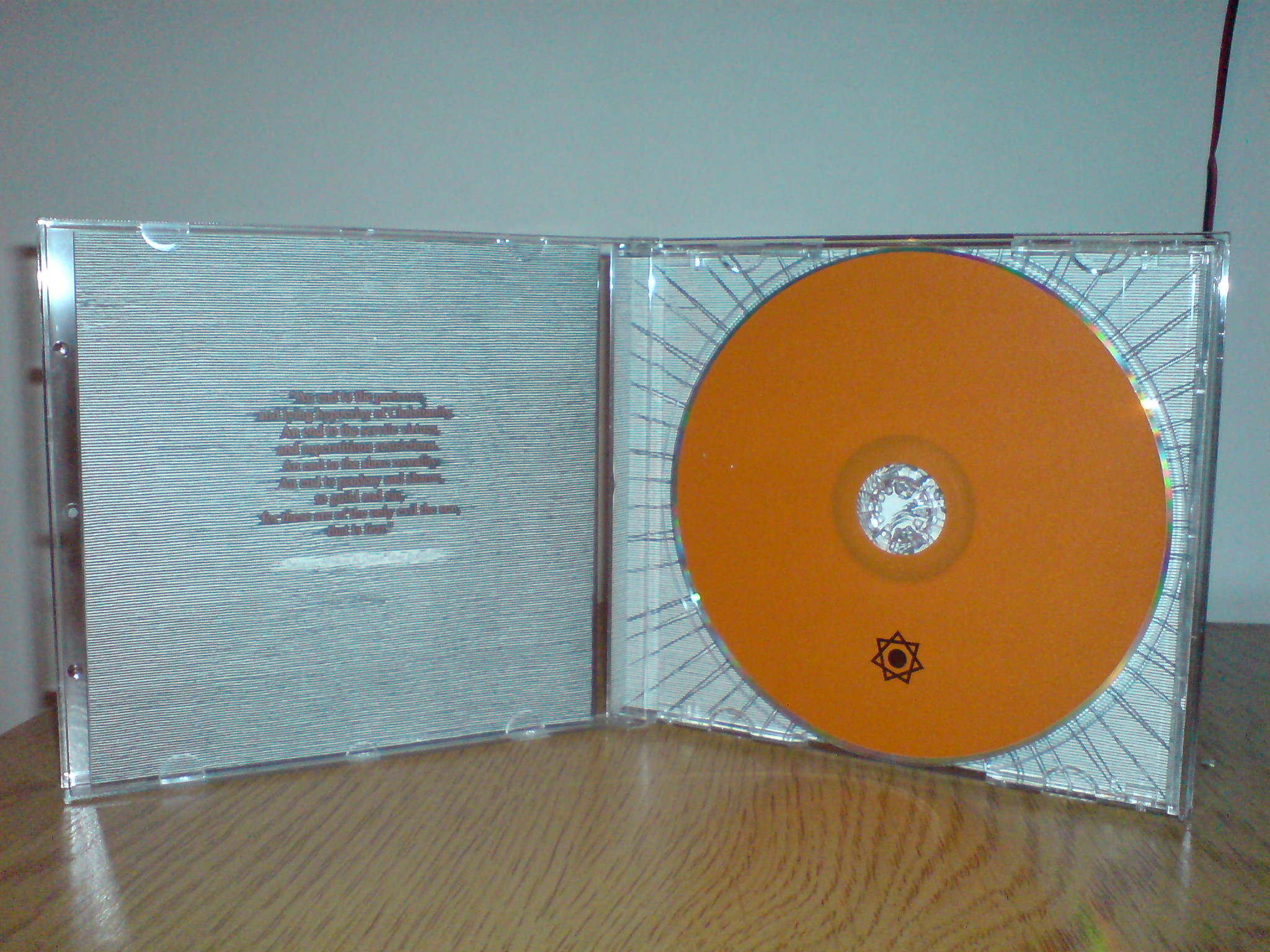 Behemoth, Evangelion album layout